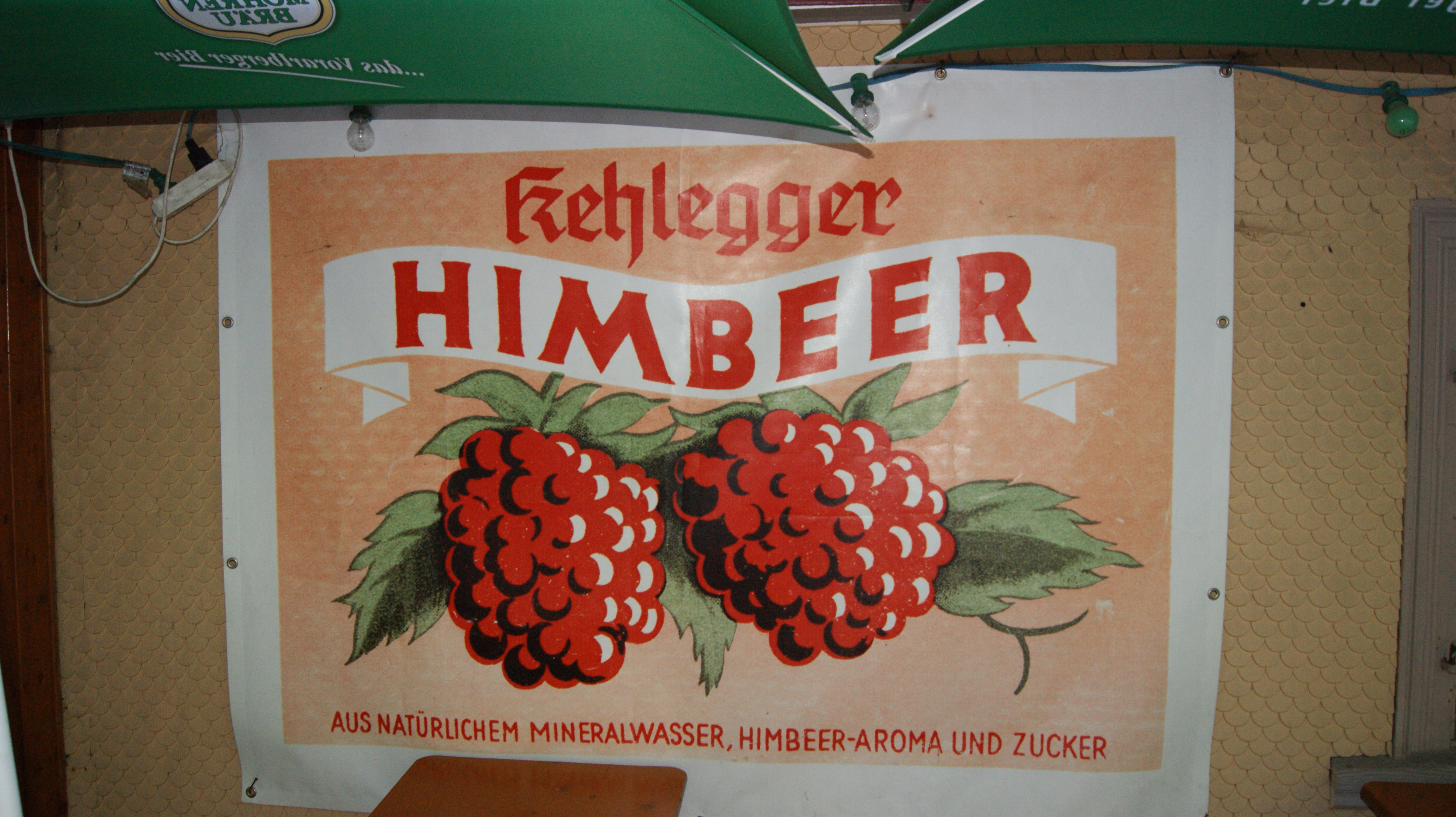 Spa Kehlegg in Kehlegg, Dornbirn, Vorarlberg, Austria. Old advertising sign.